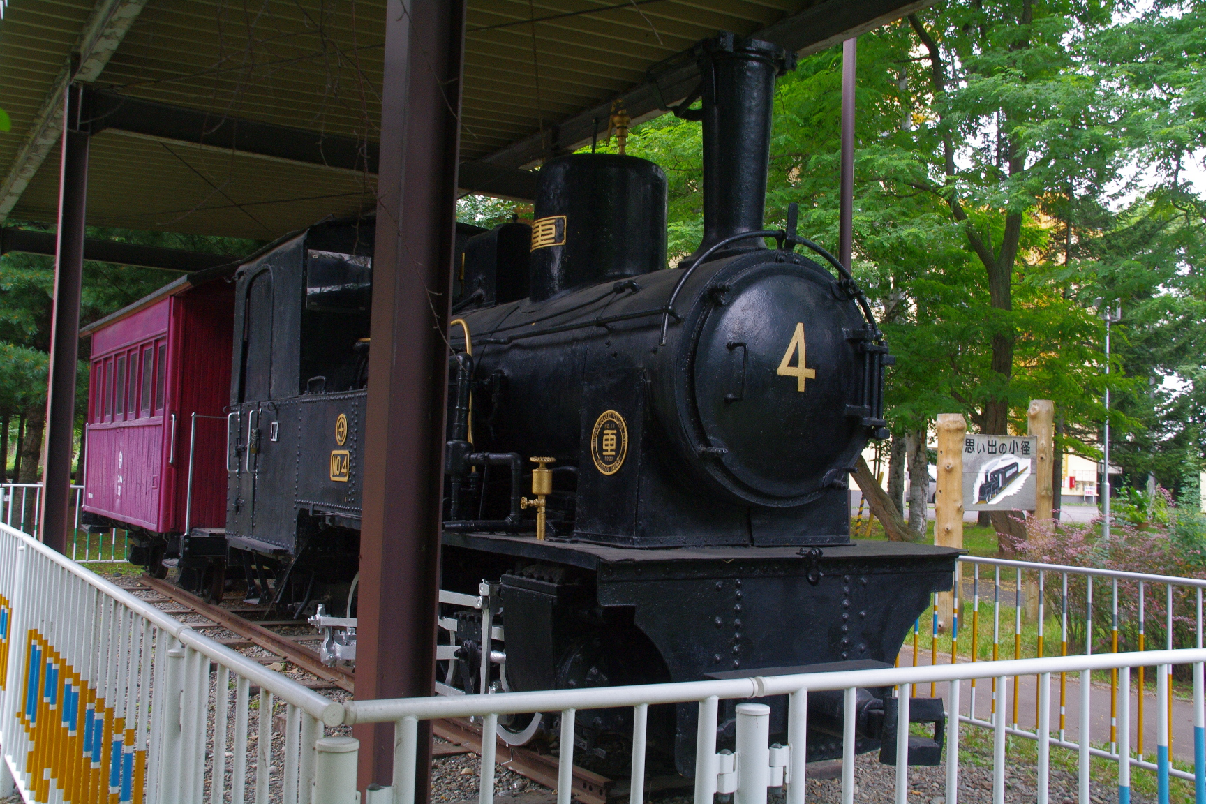 Tokachi railway No.4 steam locomotive in Obihiro city, Hokkaido.